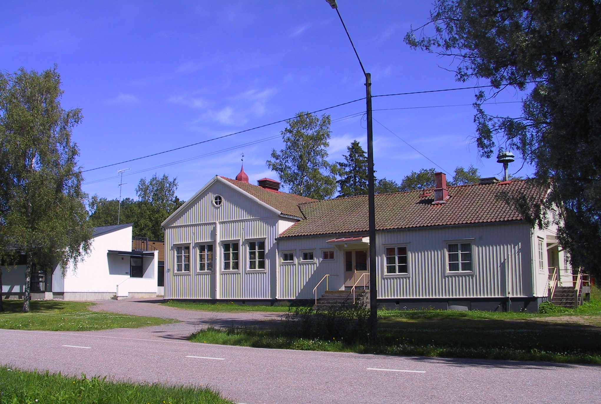 Parish centrum in Pöytyä, Finland. Designed by architect Aino Aalto. Completed 1930.